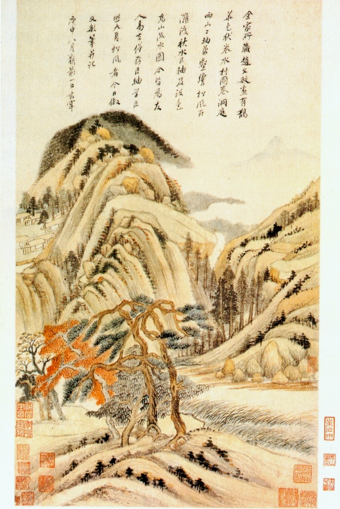 Dong_Qichang_Eight_Scenes_in_Autumn._4._Album_leaf._1620._Shanghai_Museum